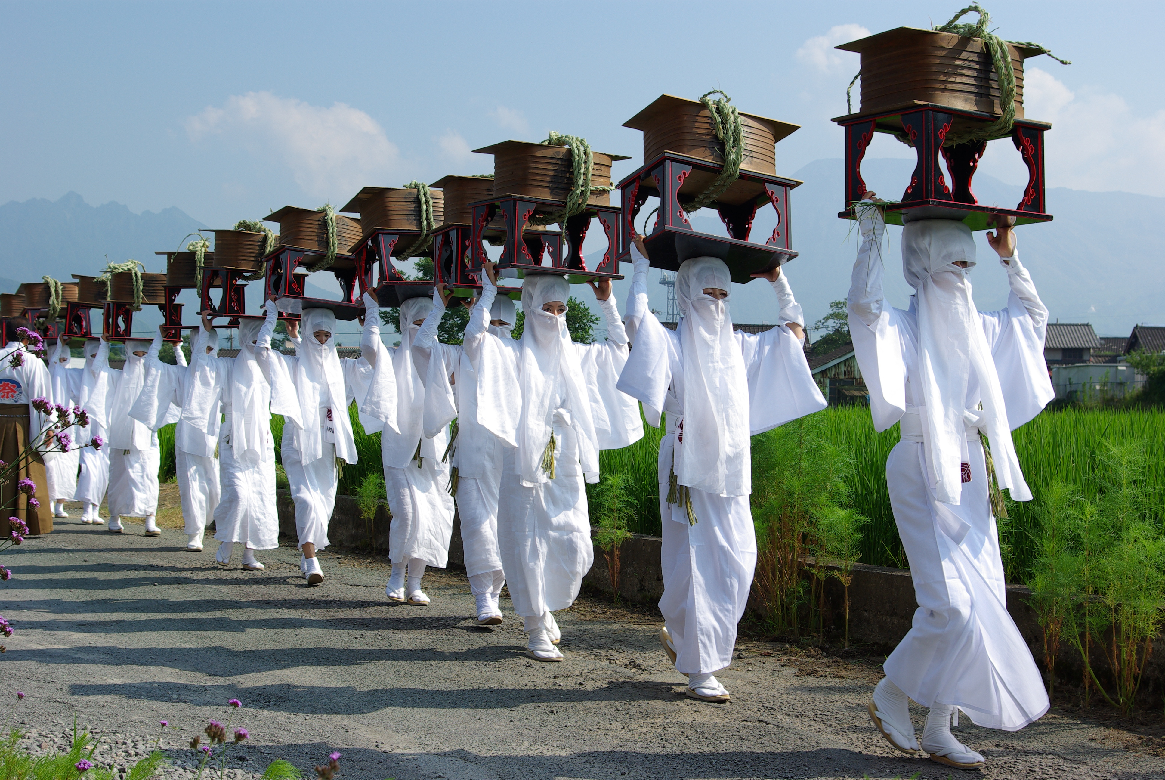 This is a picture used to show the women clad in white called Unari in the annual festival called the Onda Matsuri that occurs every year at Aso shrine in Aso city, Kumamoto Prefecture. The Unari are part of a larger procession called a Gyouretsu, but are undoubtedly the most noticeable part of the festival.